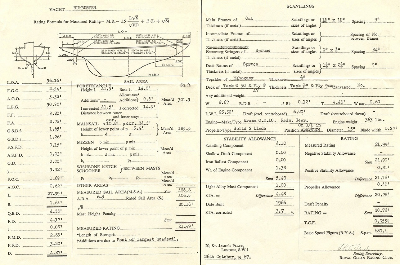 Royal Ocean Racing Club certificate for Rumbuster, part 2